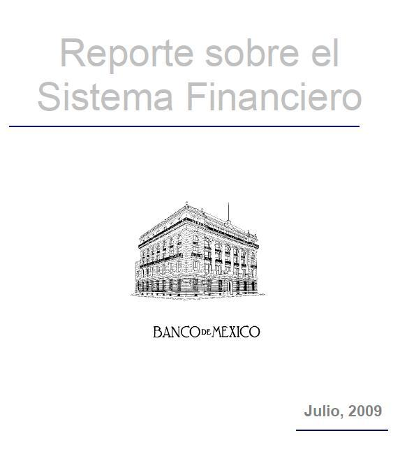 Financial System Report